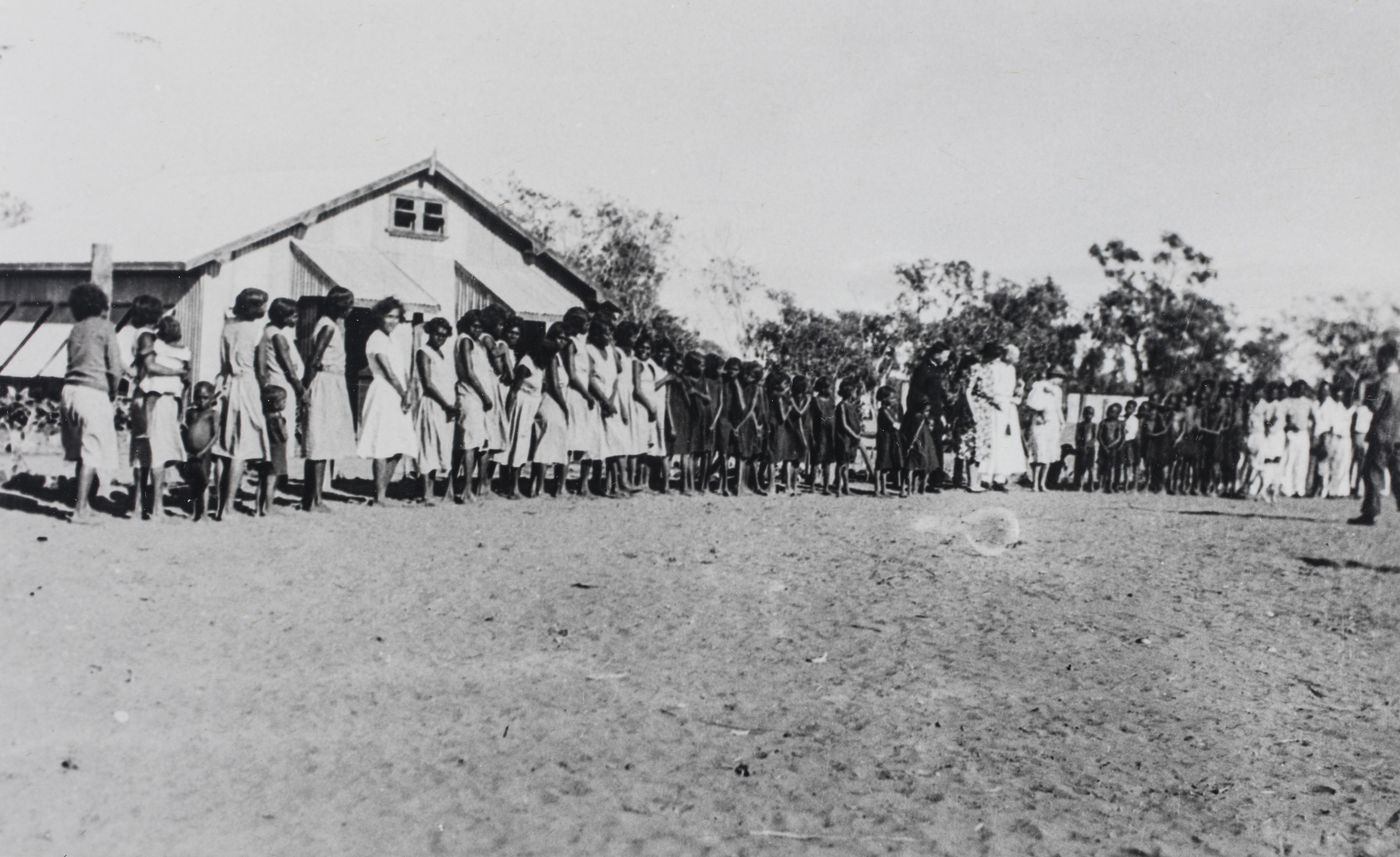 The Roper River Mission was established by the Church of England. Church Missionary Society in 1908 as a refuge for the Aboriginal against the cruelty inflicted upon them by white settlers. Note the defference in clothing colour between smaller and older children. The simple building at the back is typical of earlier buildings built of galvanised iron (to prevent deprivation by white ants) and shutters for ventilation - no fly wire. Roper River Mission in 1938 - PH0254/0010